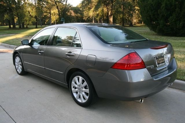 2007 Honda Accord EX-L (US)